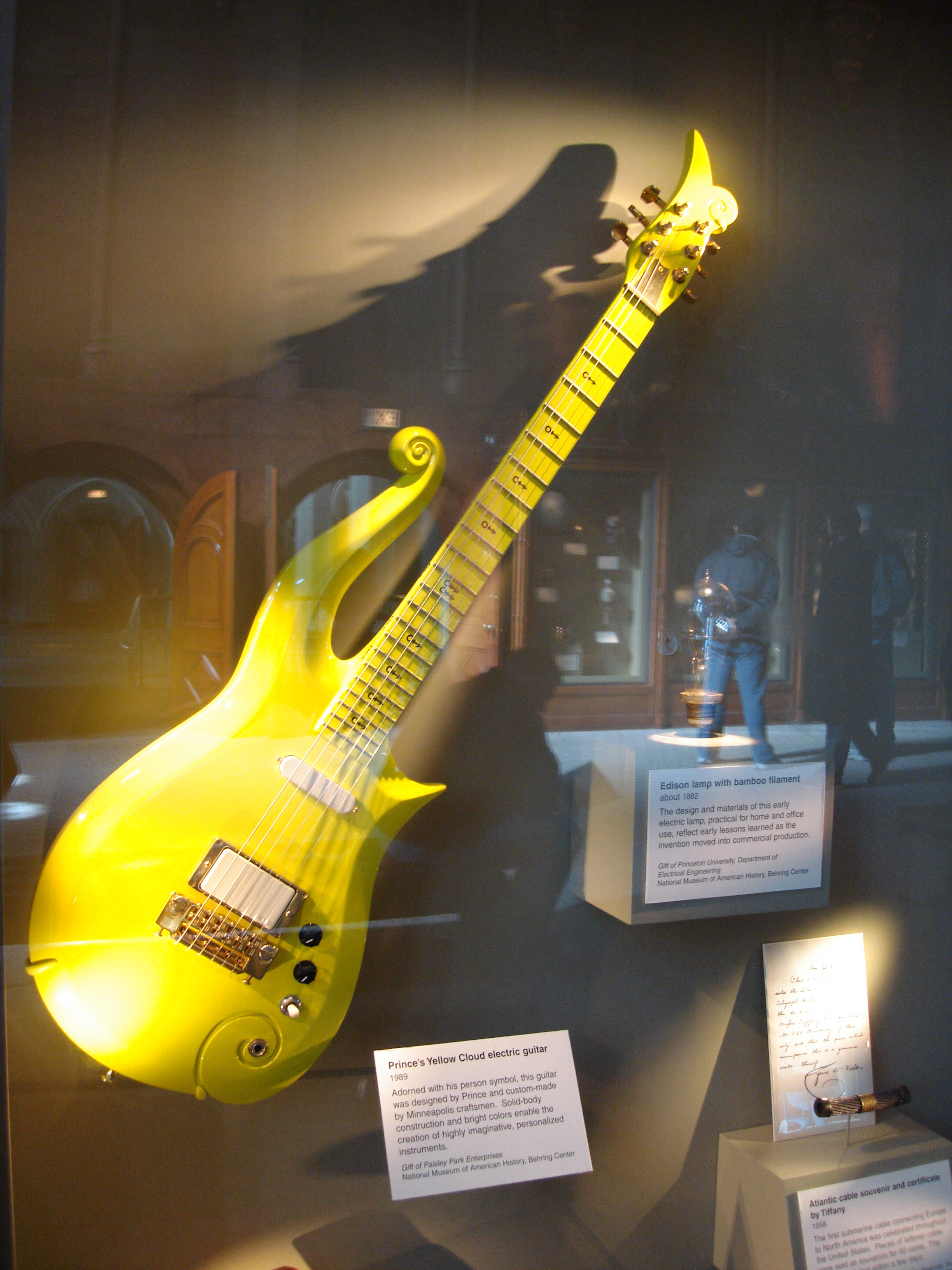 Prince's guitar. "At the Smithsonian Information Center originally housed at the Smithsonian Museum of American History"